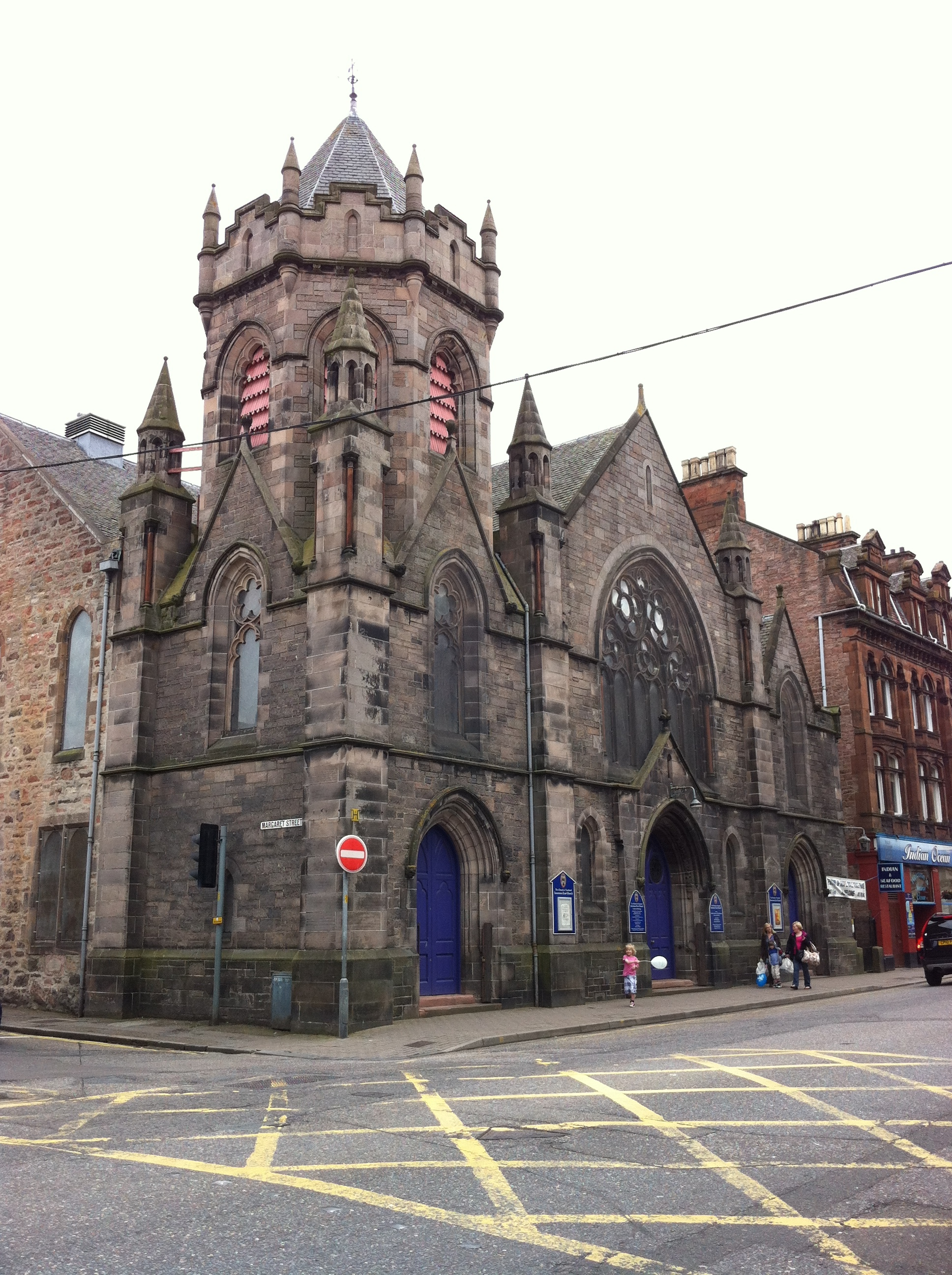 East Church on Academy Street in Inverness